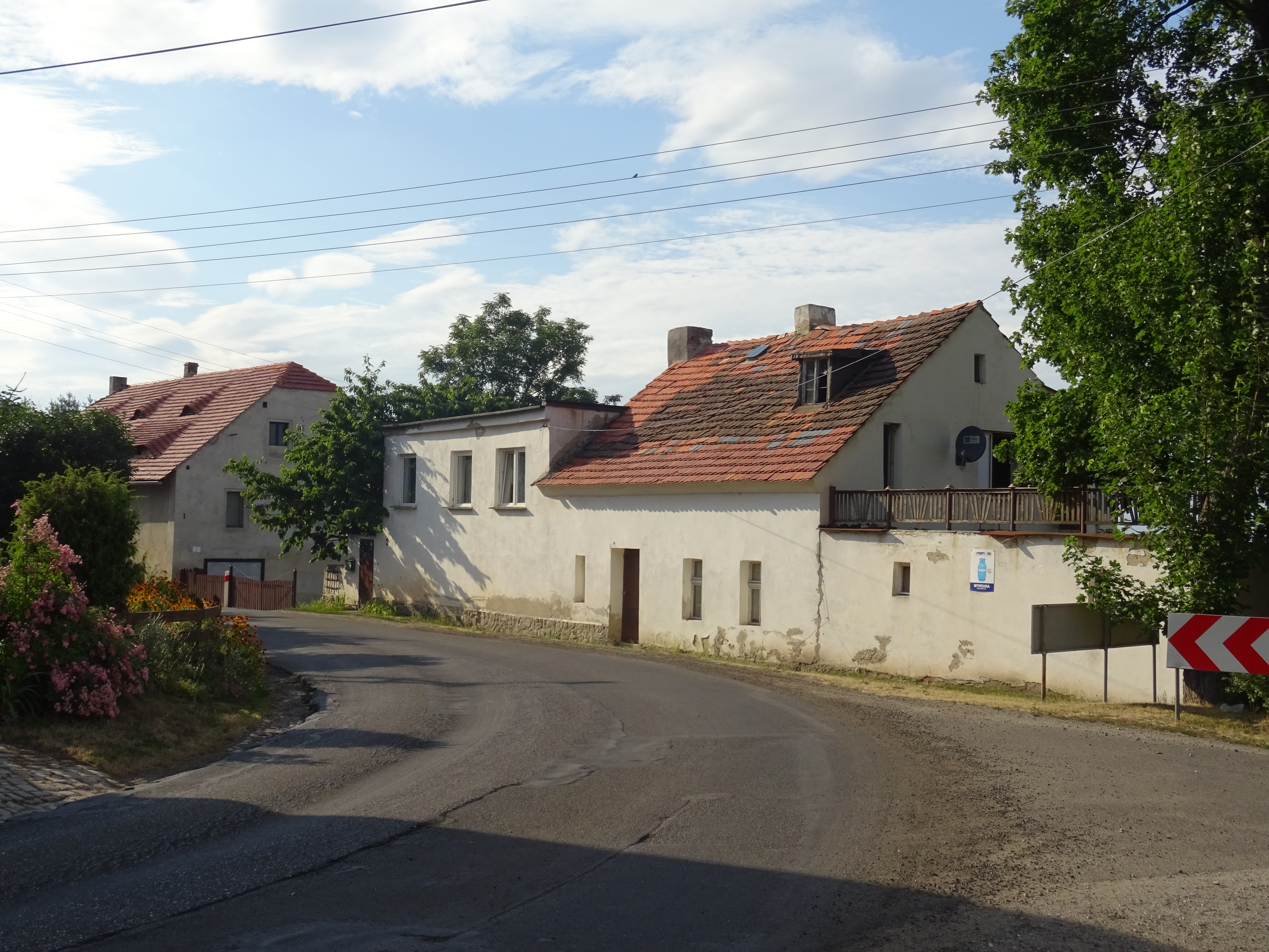 This photograph was created as a part of Wikiexpedition Lower Silesia, a project supported by Wikimedia Poland grant.